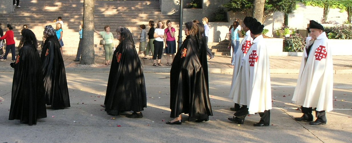 First Annual Southeastern Eucharistic Congress, Charleston, South Carolina.